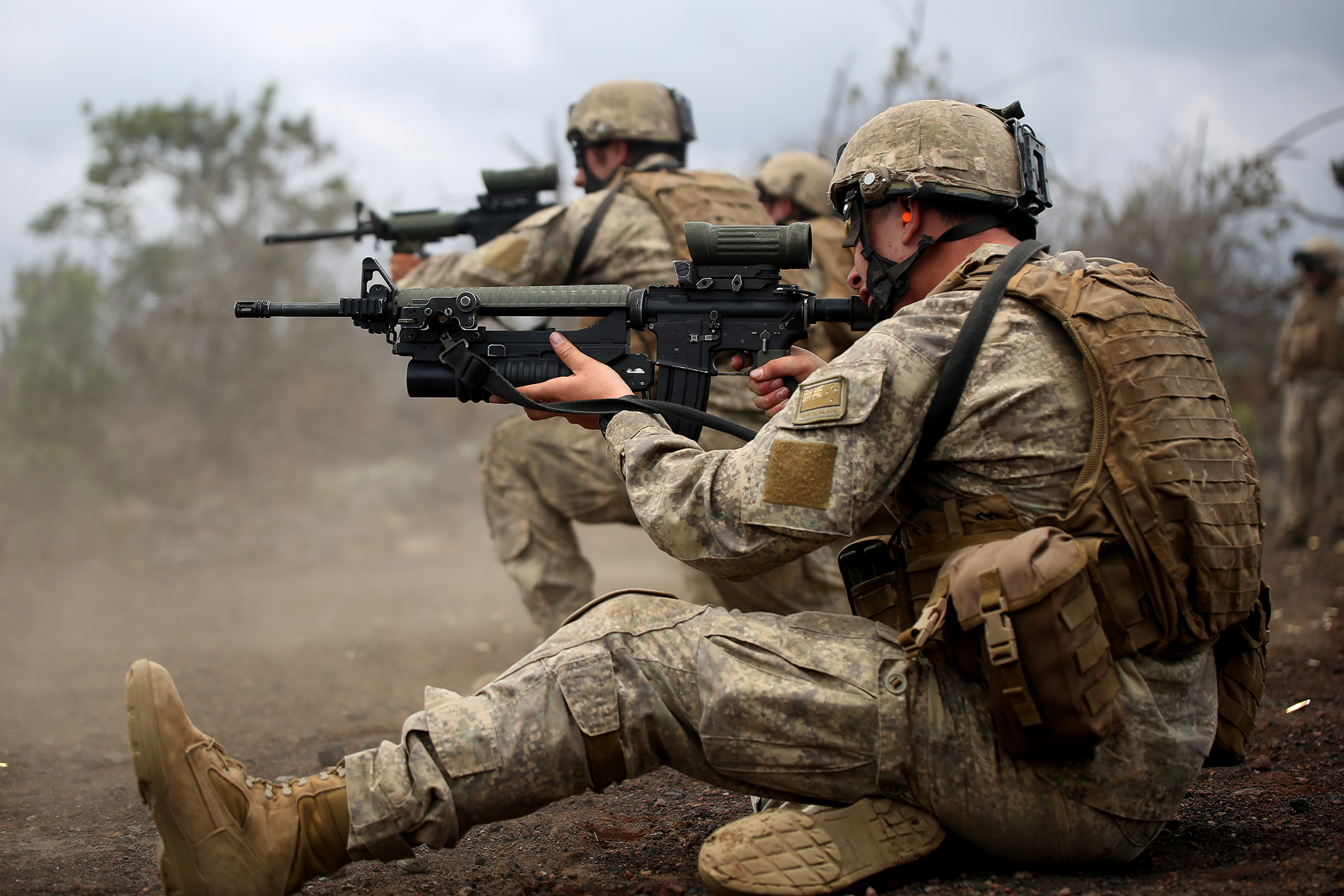 New Zealand Army Pvt. Cameron Dalley, a rifleman with Company Landing Team 5, shoots a Canadian C7A2 service rifle at Range 7 in Pohakuloa Training Area as part of Rim of the Pacific (RIMPAC) Exercise 2014. The C7A2 service rifle is the primary weapon used in the Canadian Army. Service members from New Zealand, Canada and U.S. Marine Corps exchanged weapons for foreign weapons training. Twenty-two nations, more than 40 ships and submarines, about 200 aircraft and 25,000 people are participating in RIMPAC from June 26 to Aug. 1 in and around the Hawaiian Islands and Southern California. The world's largest international maritime exercise, RIMPAC provides a unique training opportunity that helps participants foster and sustain the cooperative relationships that are critical to ensuring the safety of sea lanes and security on the world's oceans. RIMPAC 2014 is the 24th exercise in the series that began in 1971. (U.S. Marine Corps photo by Sgt. Sarah Dietz/Released)